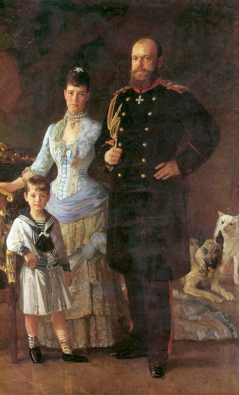 Alexander III with wife Maria Fyodorovna and son Michael